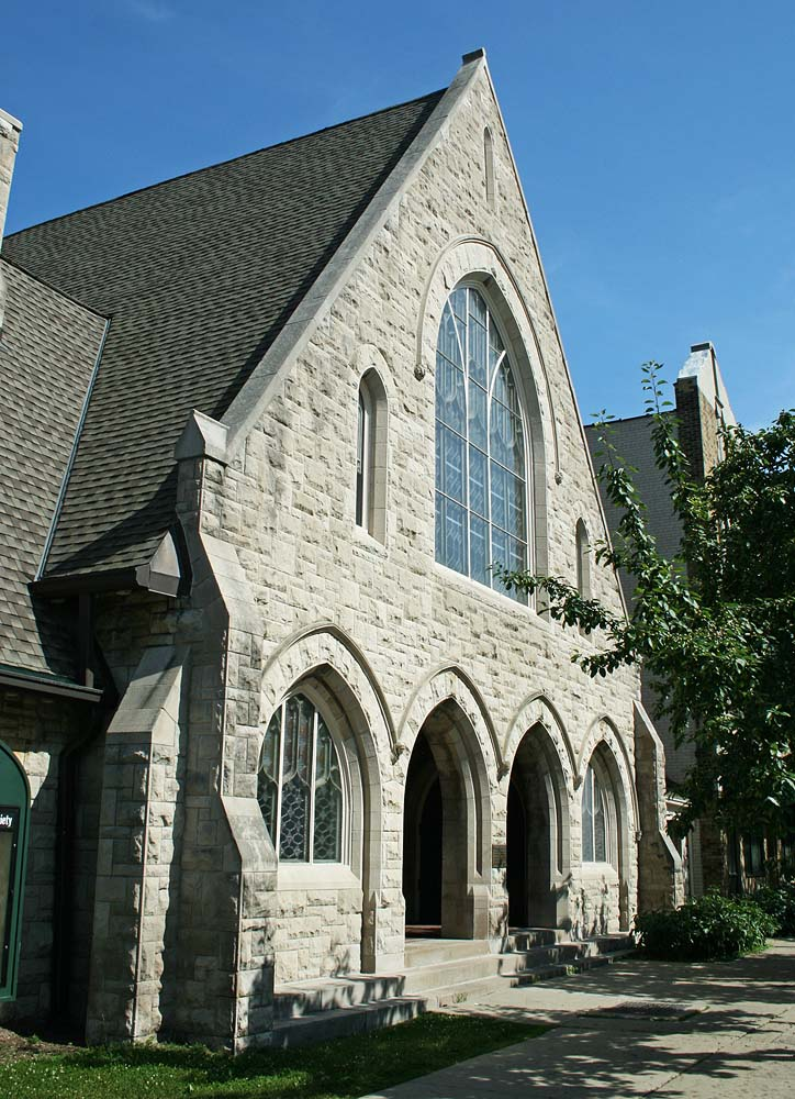 The front of the First Unitarian Church, Milwaukee, Wisconsin. National Registered Historic Place.